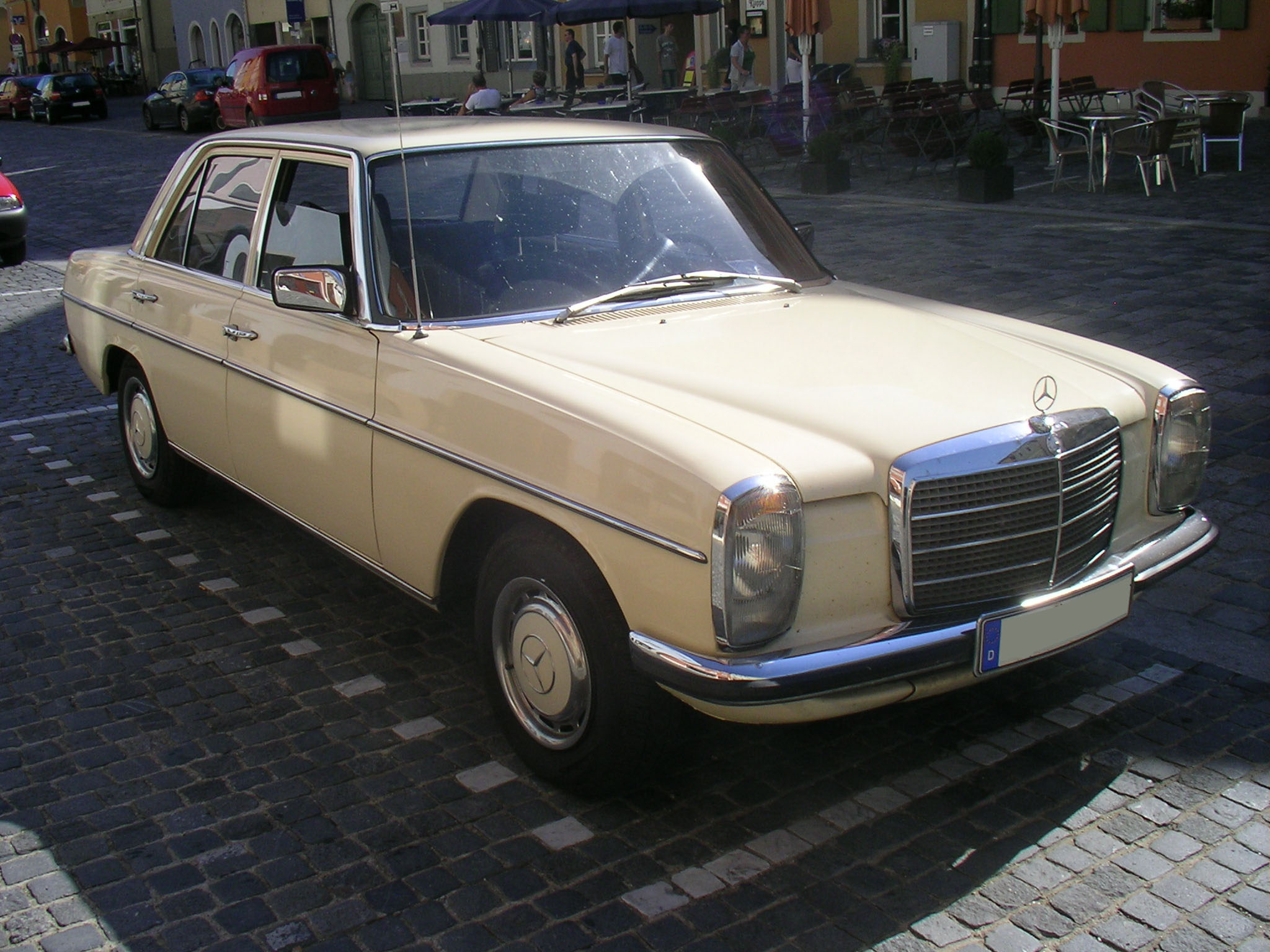 Mercedes Benz W115 200D